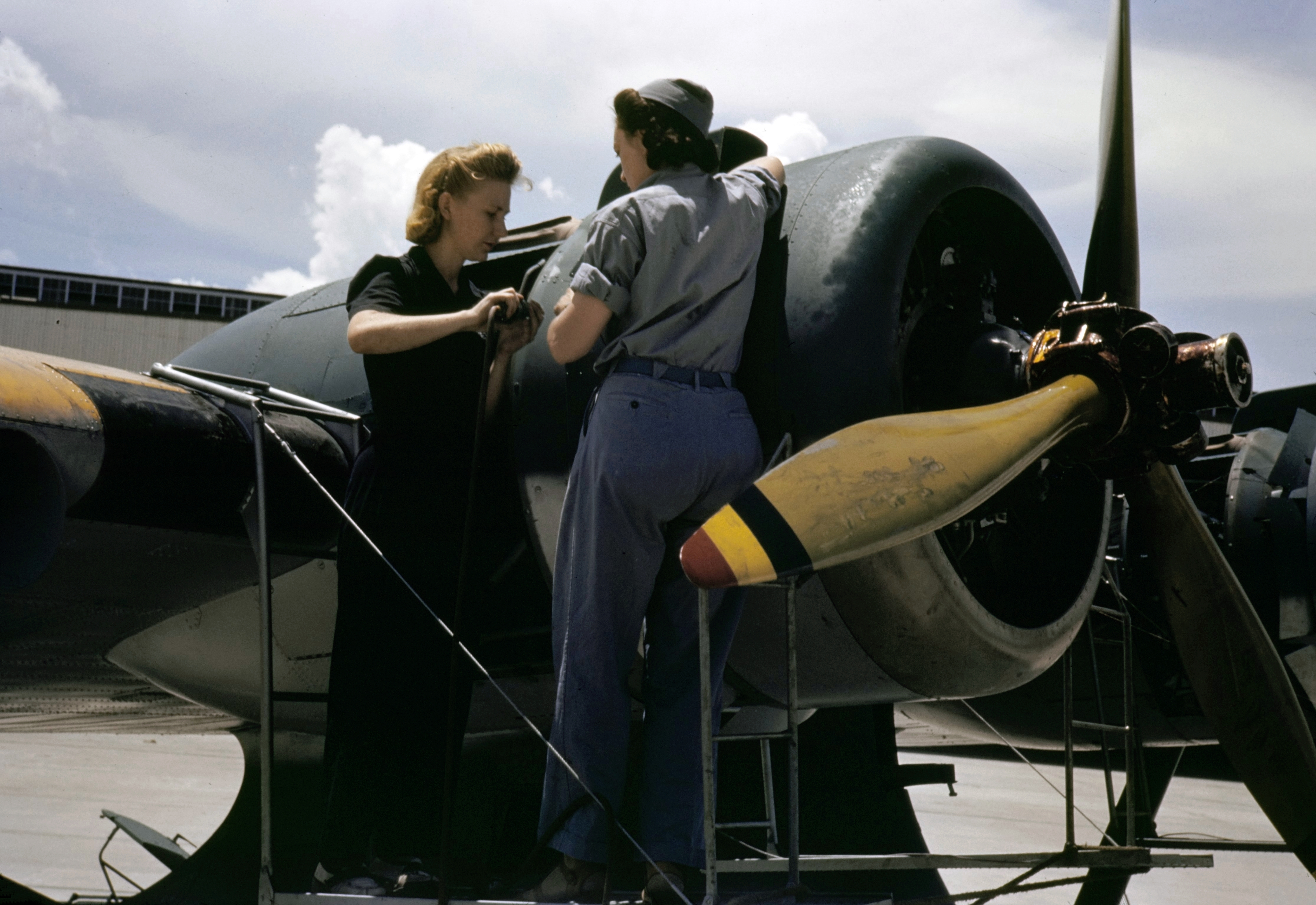 Women Civil Service workers (Bowen, a riveter, and Olsen, her supervisor) of the assembly and repair department work on the Pratt & Whitney R-1830-92 Twin Wasp radial engine of a Consolidated PBY Catalina at the Naval Air Station Corpus Christi, Texas (USA).